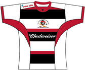 2008 Flint Rogues Rugby Football Club jersey